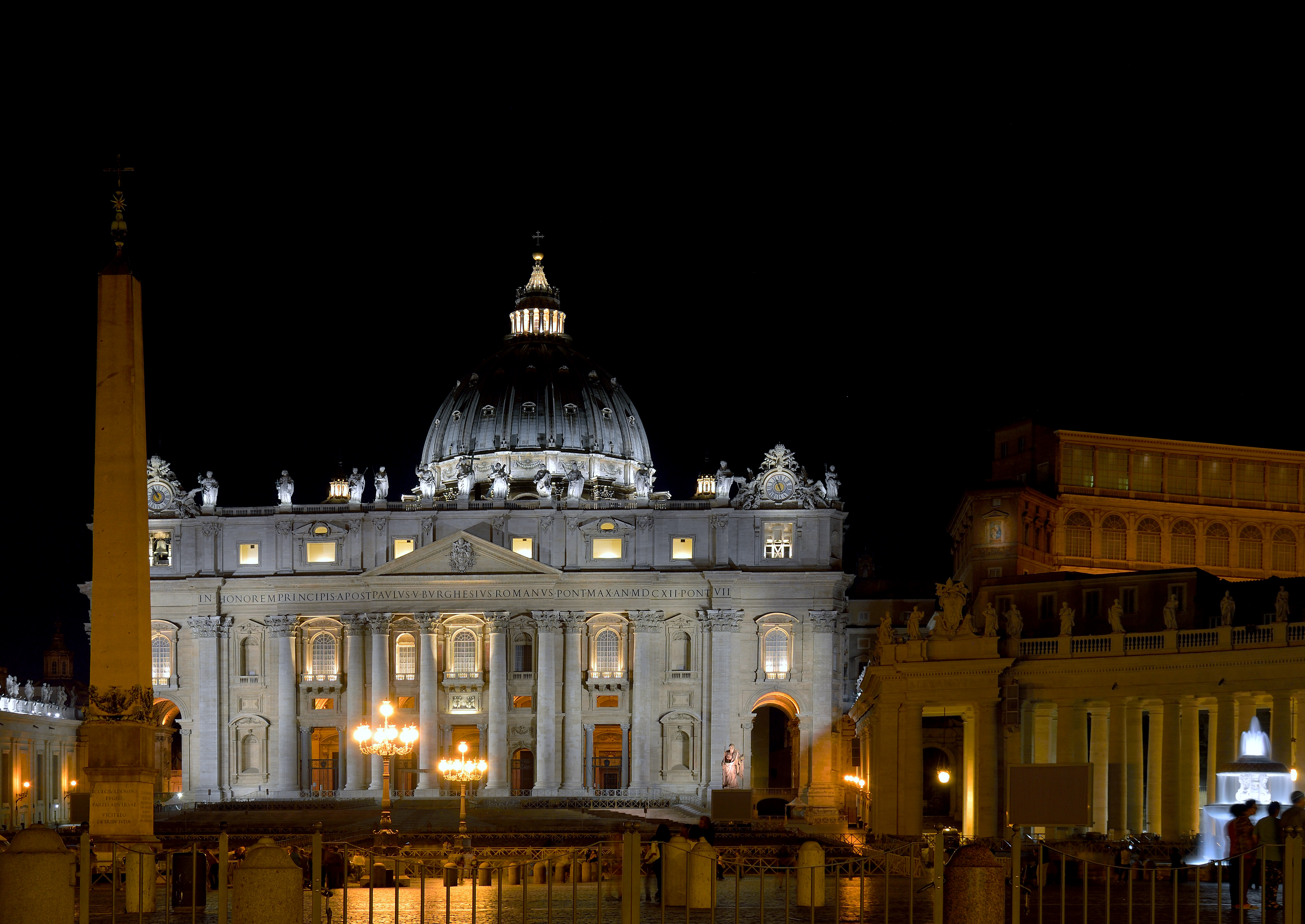 St. Peter and obelisk at night